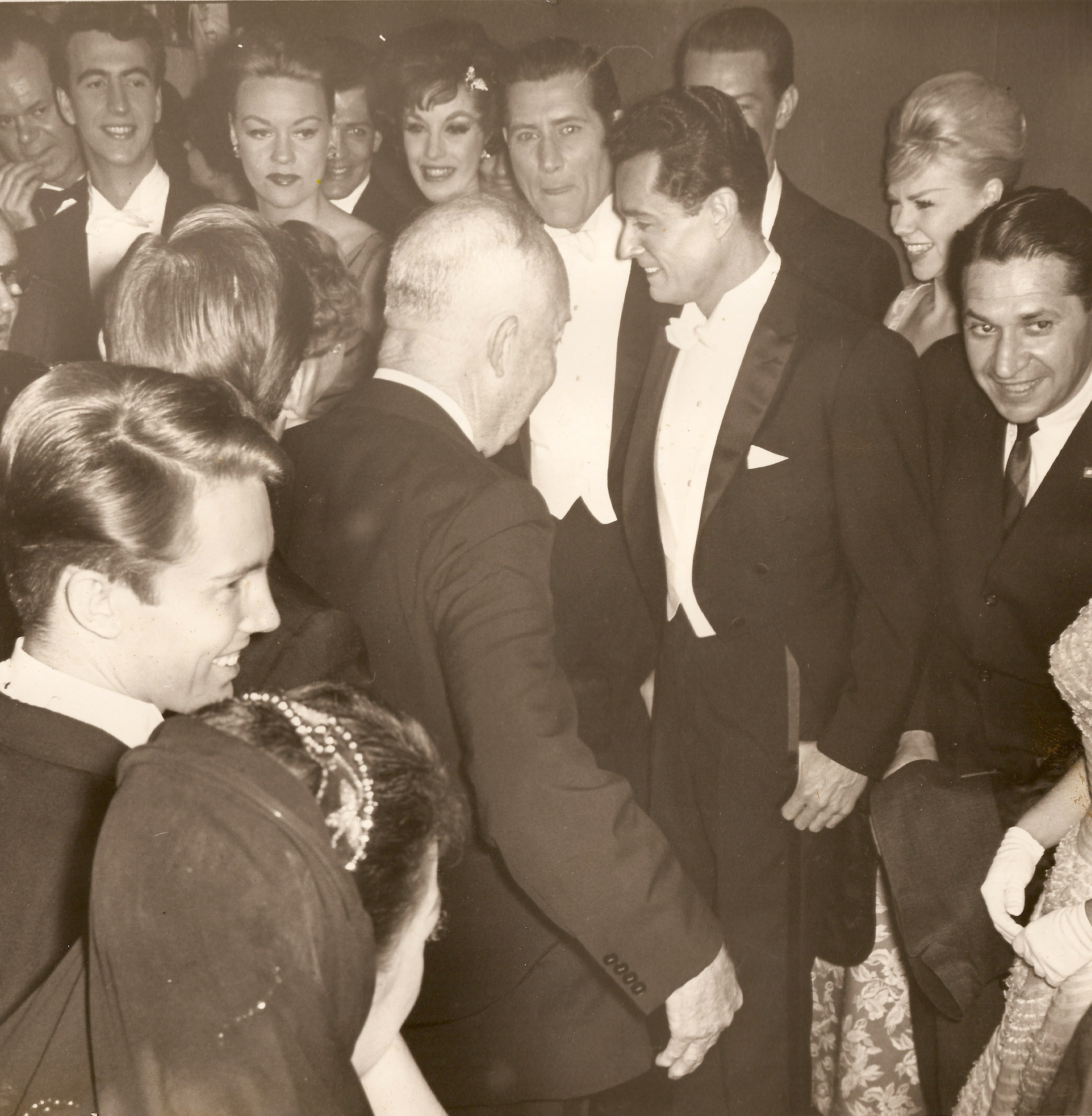 Jack Washburn appearing with President Eisenhower after a performance or "Mr. President" at the National Theater in Washington, D.C.